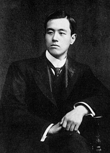 Ōtani Kōzui, a religious scholar and explorer from Japan